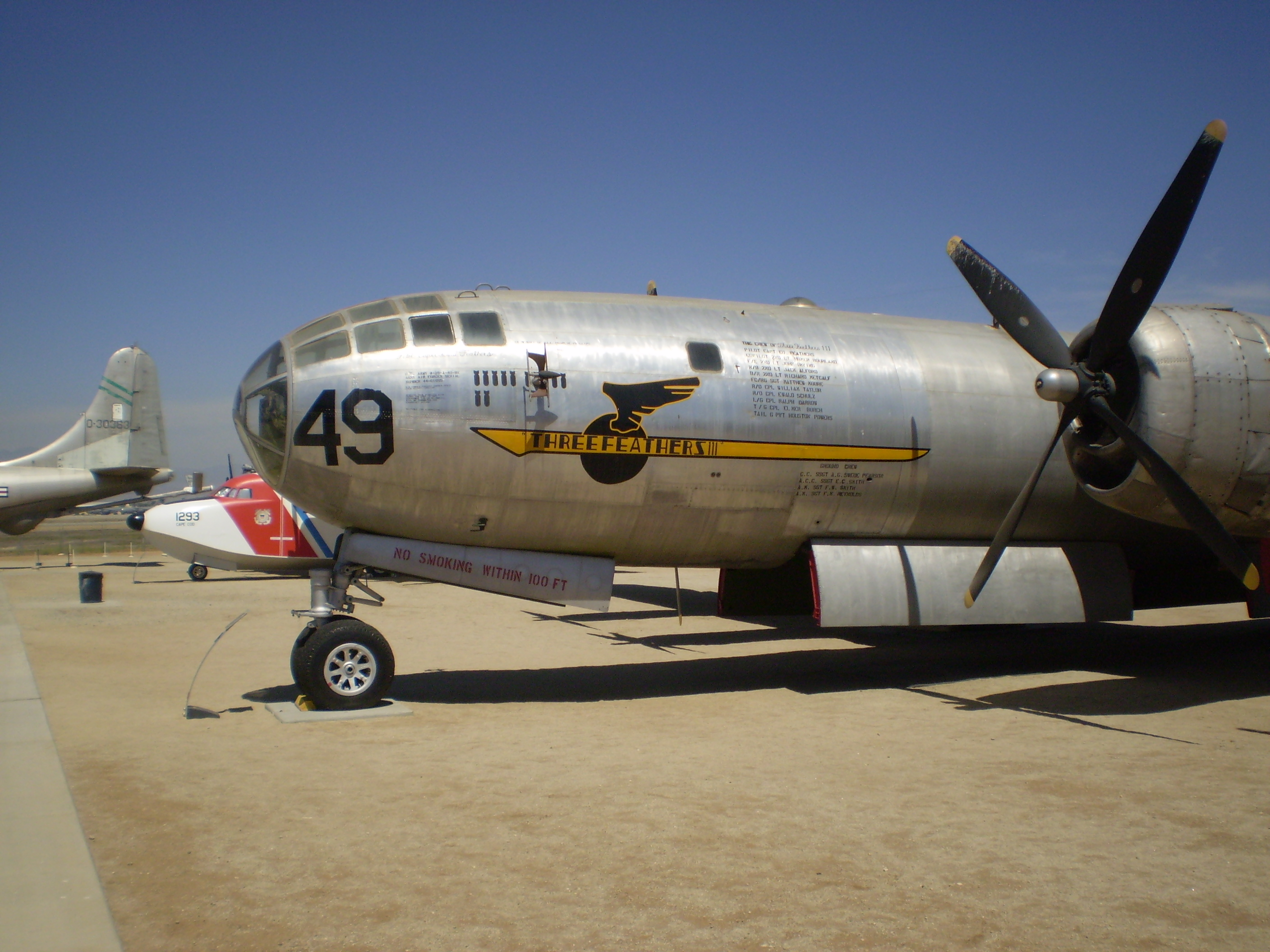 Boeing B-29 "Superfortress" bomber displayed at March Field Air Museum, Riverside, CA in 2007.